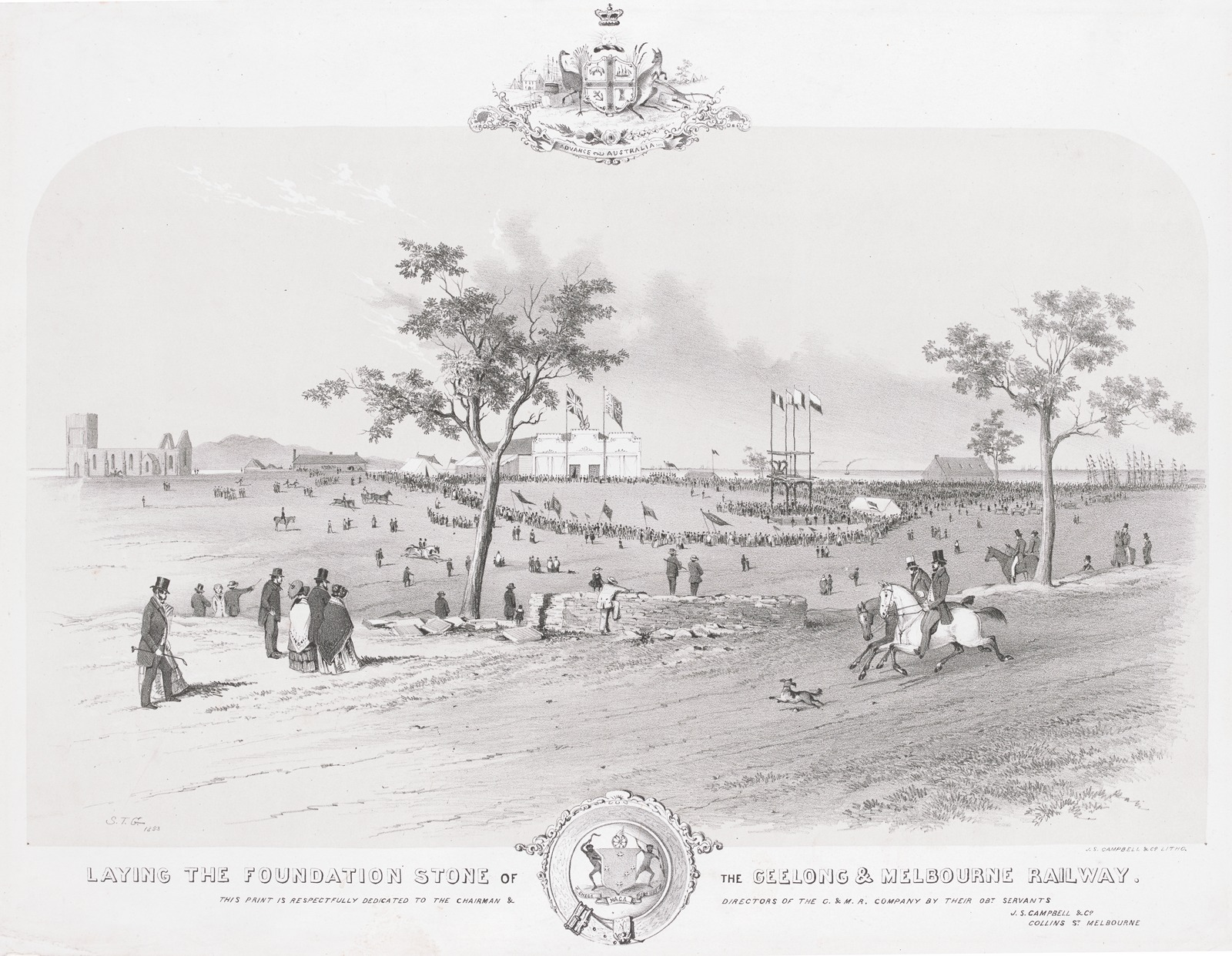 Shows the crowds gathered for the laying of the foundation stone of the Geelong and Melbourne Railway. Corio Bay can be seen at the right, and the You Yangs at the left.